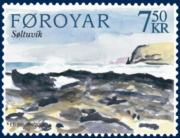 Stamp FO 570 of the Faroe Islands: The Isle of Sandoy: Søltuvík